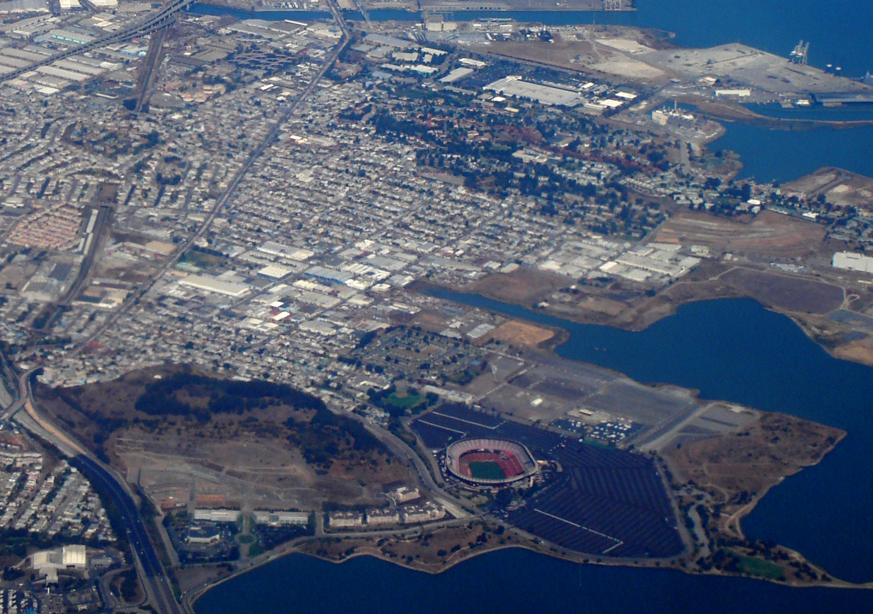 Aerial photograph of Bayview-Hunters Point, San Francisco. Rotated approximately 10 degrees and curves modified to improve contrast.